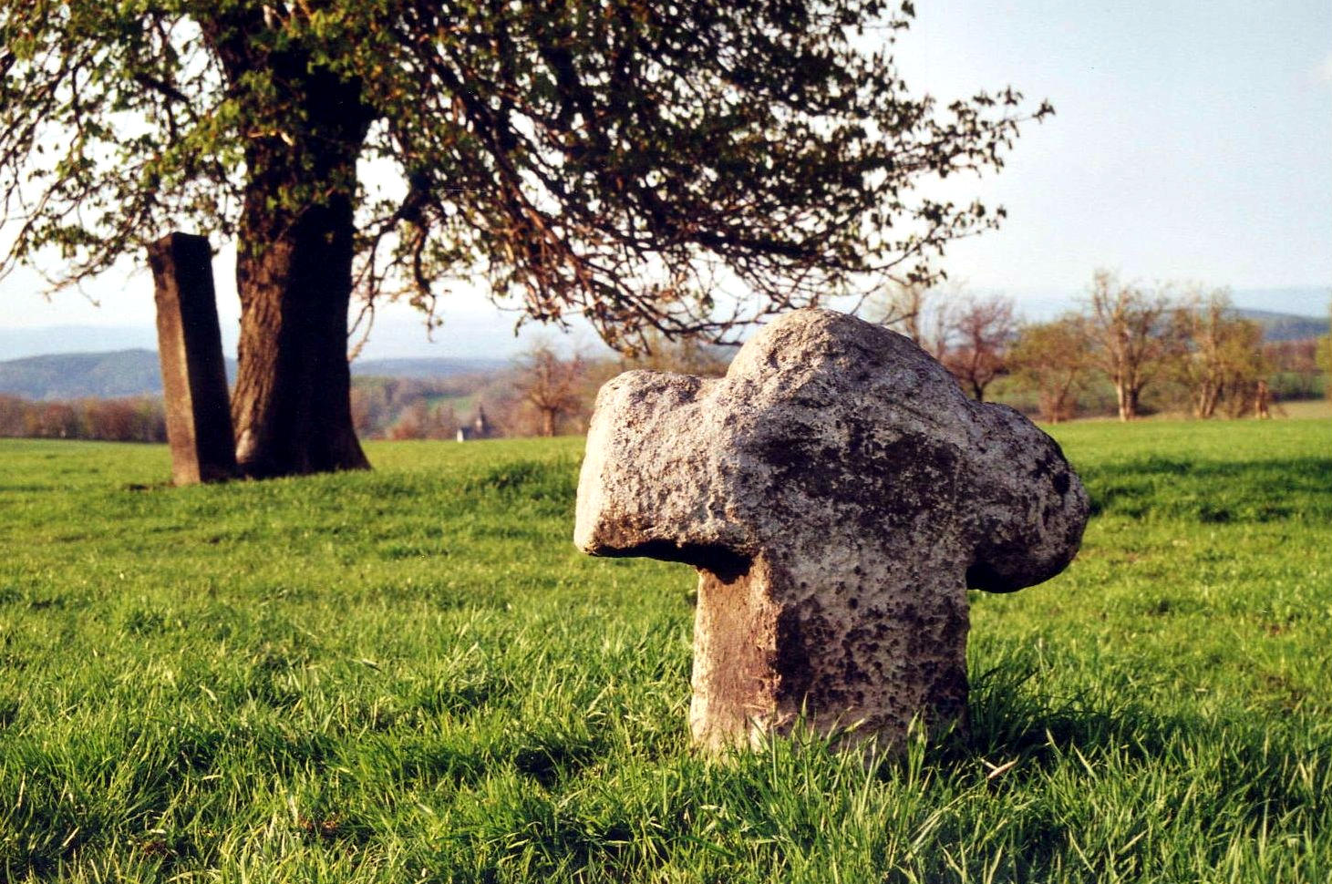 This image shows a stone cross on the trail to the Oelsener Höhe (644 m) near Oelsen.